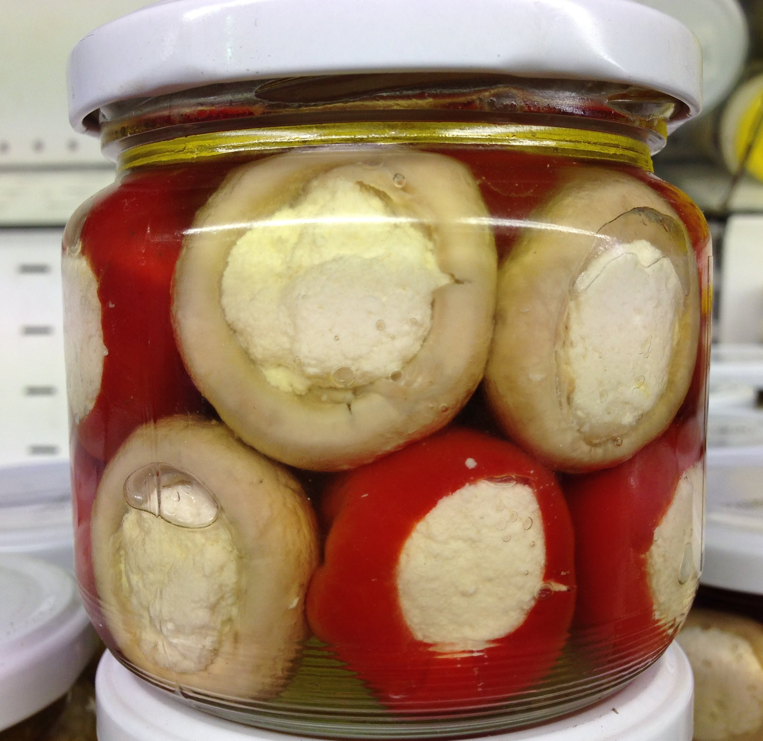 Cheese in oil and peppers